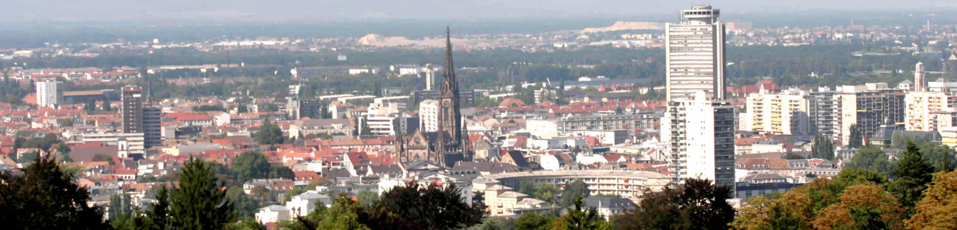 Mulhouse from Rebberg